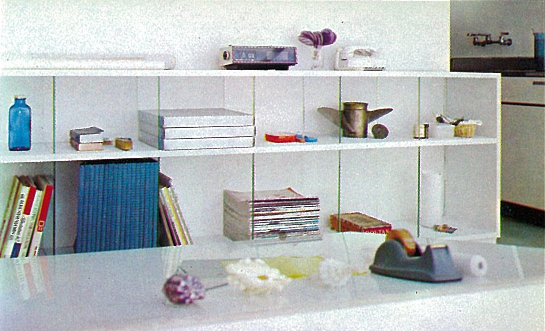 The desk and the art object Seiroku Otsuka used habitually.It's a kitchen to seem on the right side. Take a picture in 1968